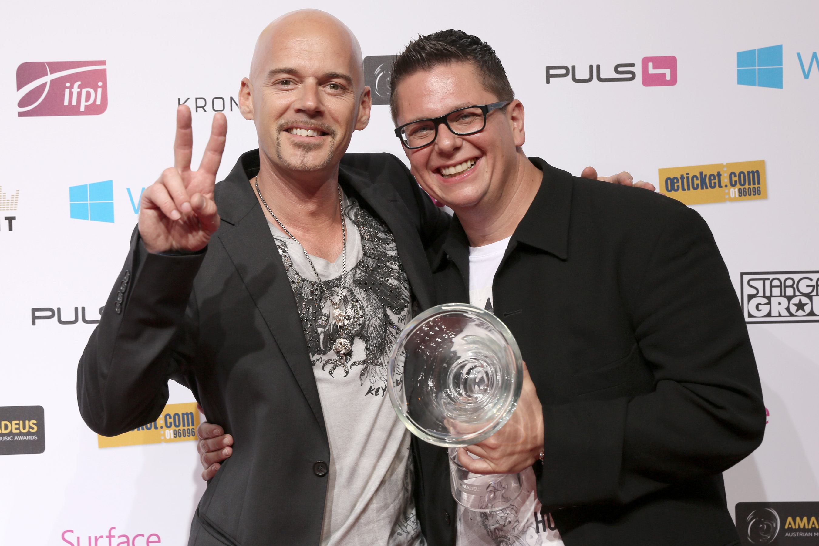 Darius & Finlay at the Amadeus Austrian Music Award 2014 at Volkstheater in Vienna